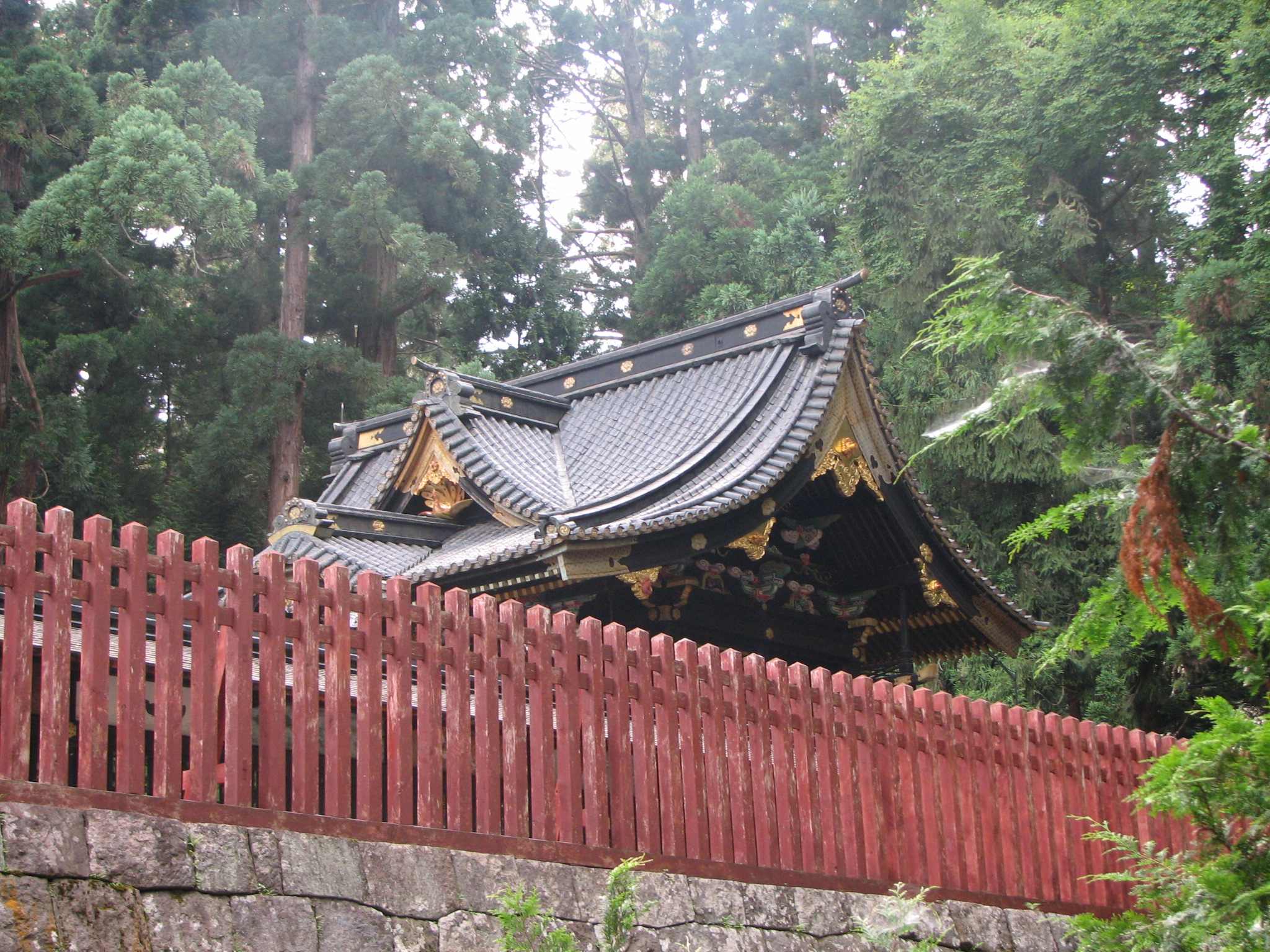 the honden of Iwakiyama Shrine, Hirosaki, Aomori, Japan 岩木山神社本殿（青森県弘前市）